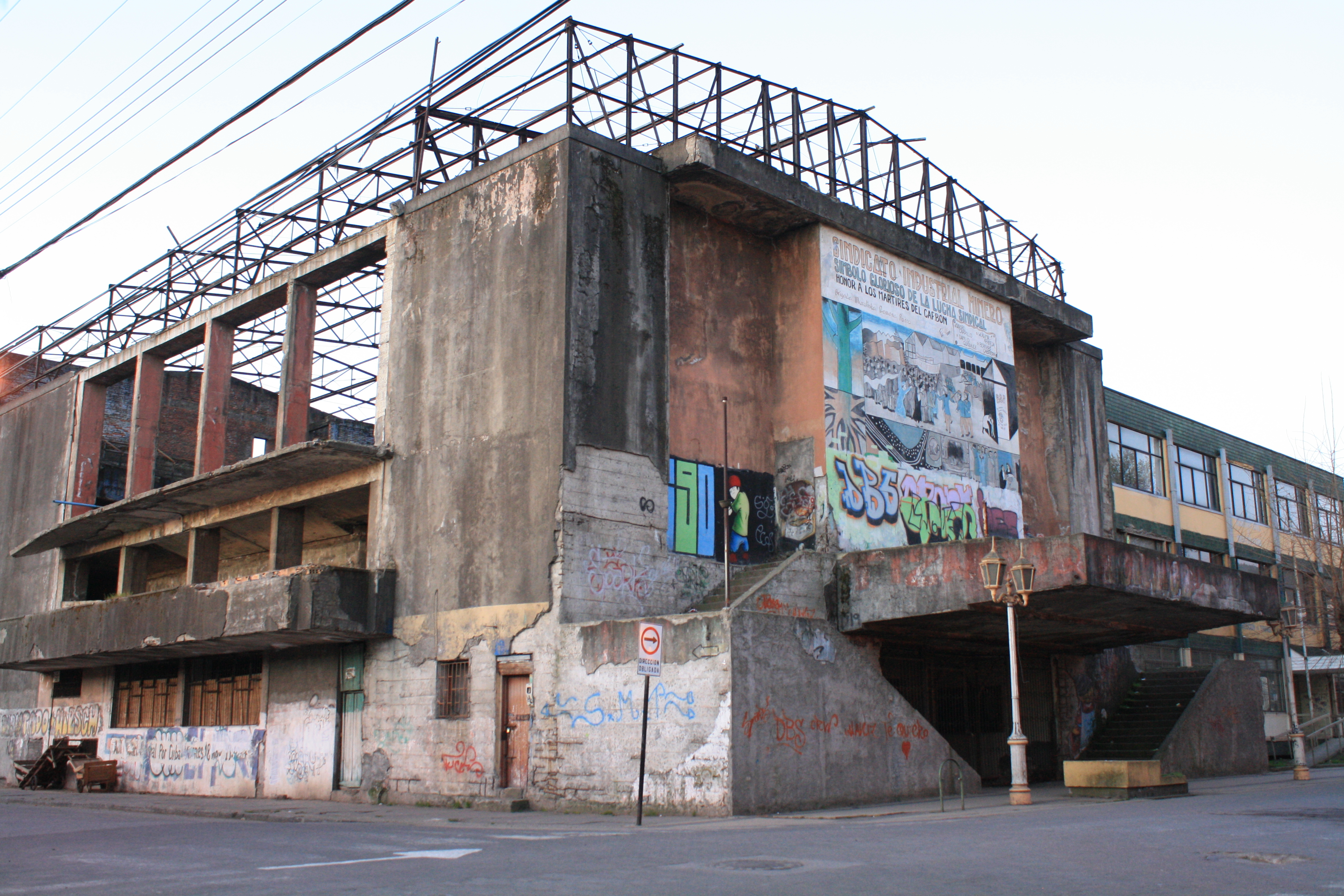 This is a photo of a national monument in Chile: 2123